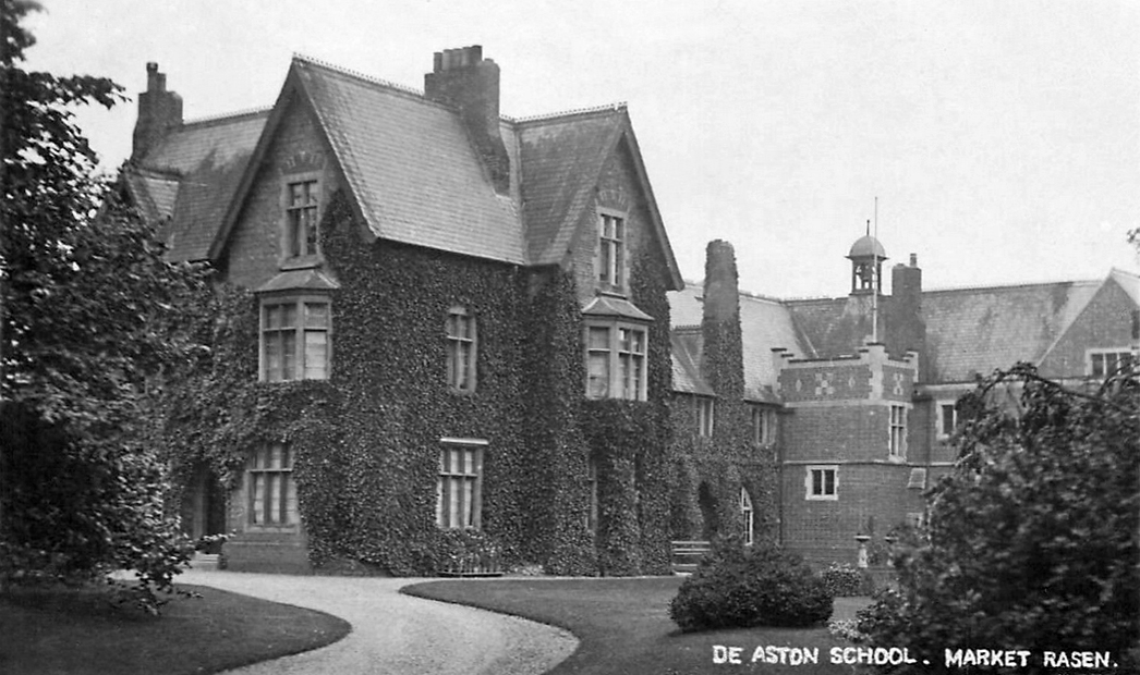 De Aston School, Market Rasen, Lincolnshire, England. Picture postcard with no indication of photographer, but by stamp on reverse 1915 or earlier. Postcard trimmed to remove worn edges.